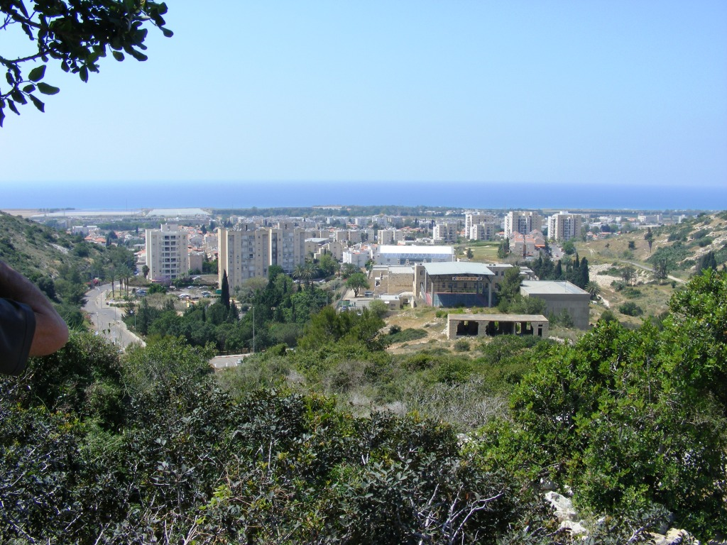 Cities in Israel